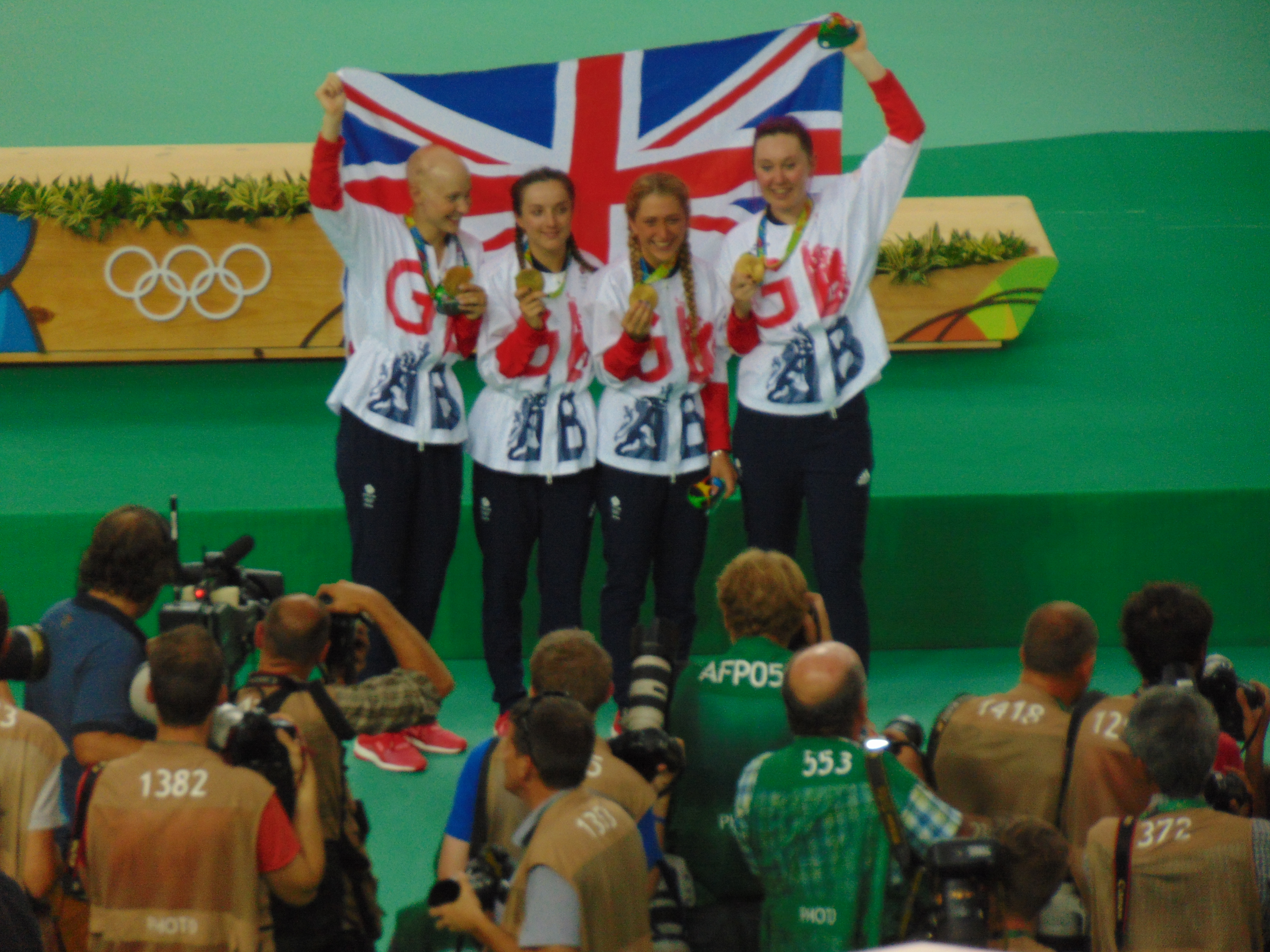 Rio 2016 - Track cycling 13 August (CT004)